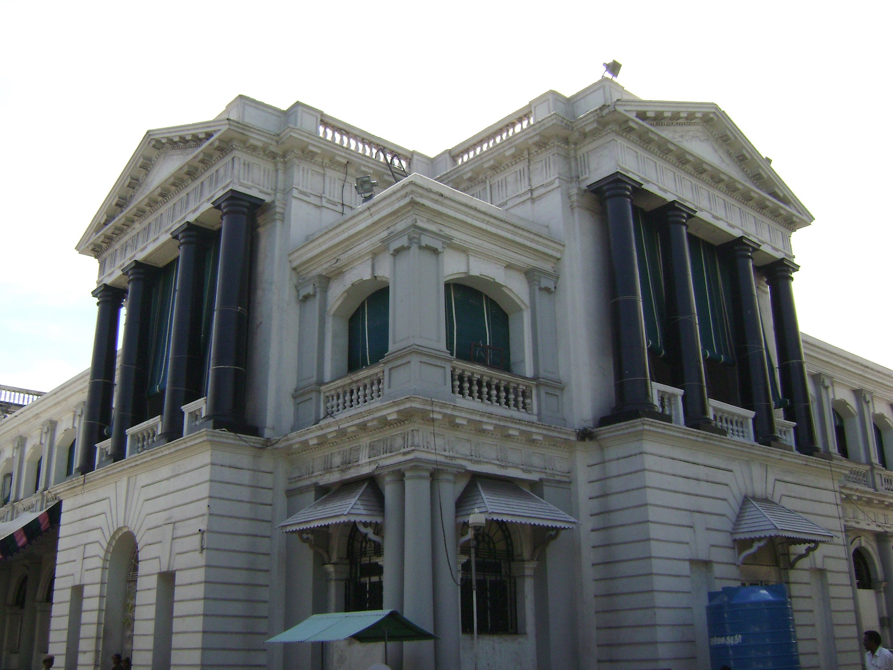 Fort St. George, Chennai